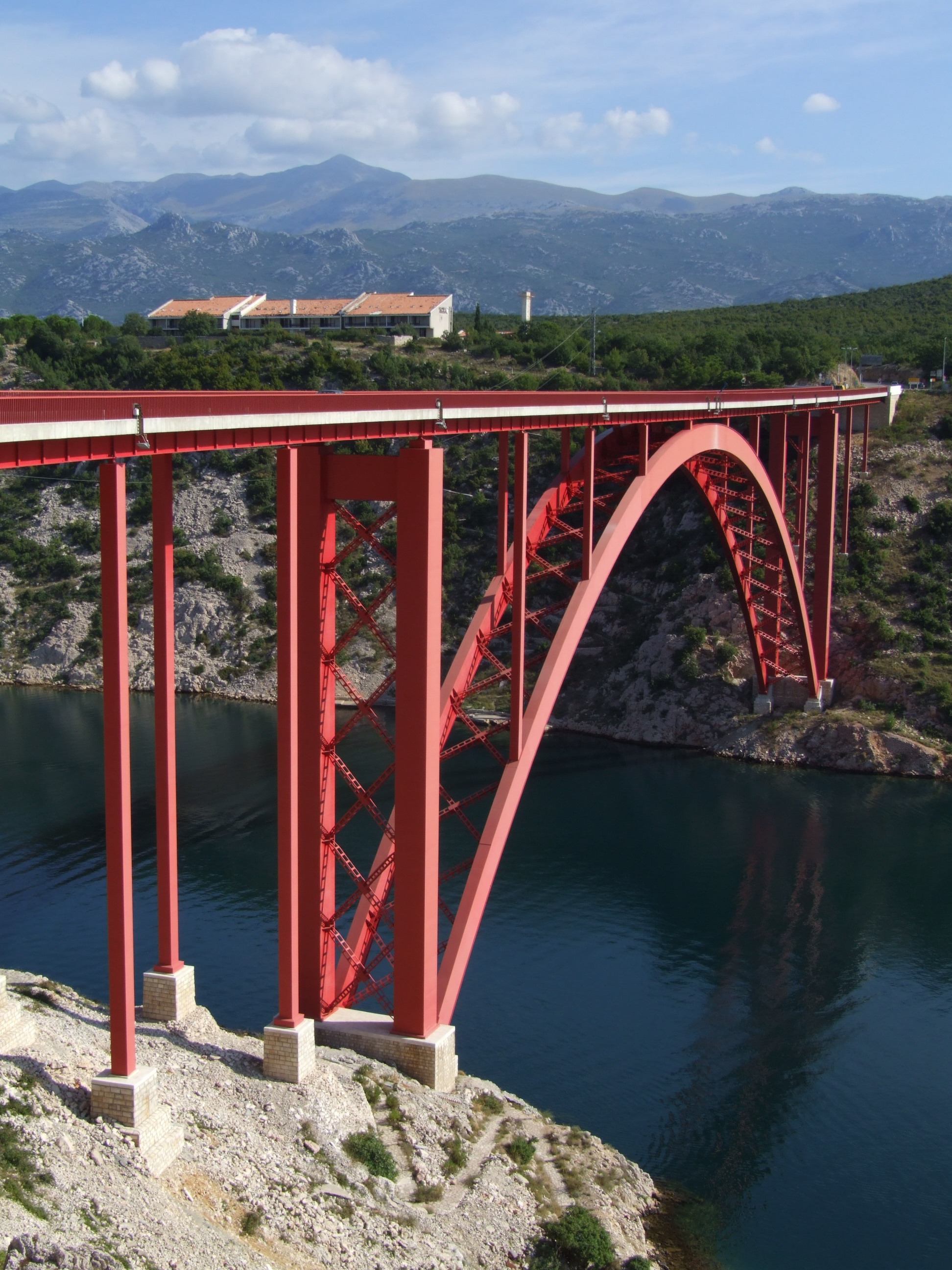 "Old'" Maslenica Bridge over strait Novsko ždrilo, Croatia. Total length: 315.3 m, width: 10.5 m, longest span: 155 m, clearance below: 55 m, opened: 1961 (original), 2005 (rebuilt).